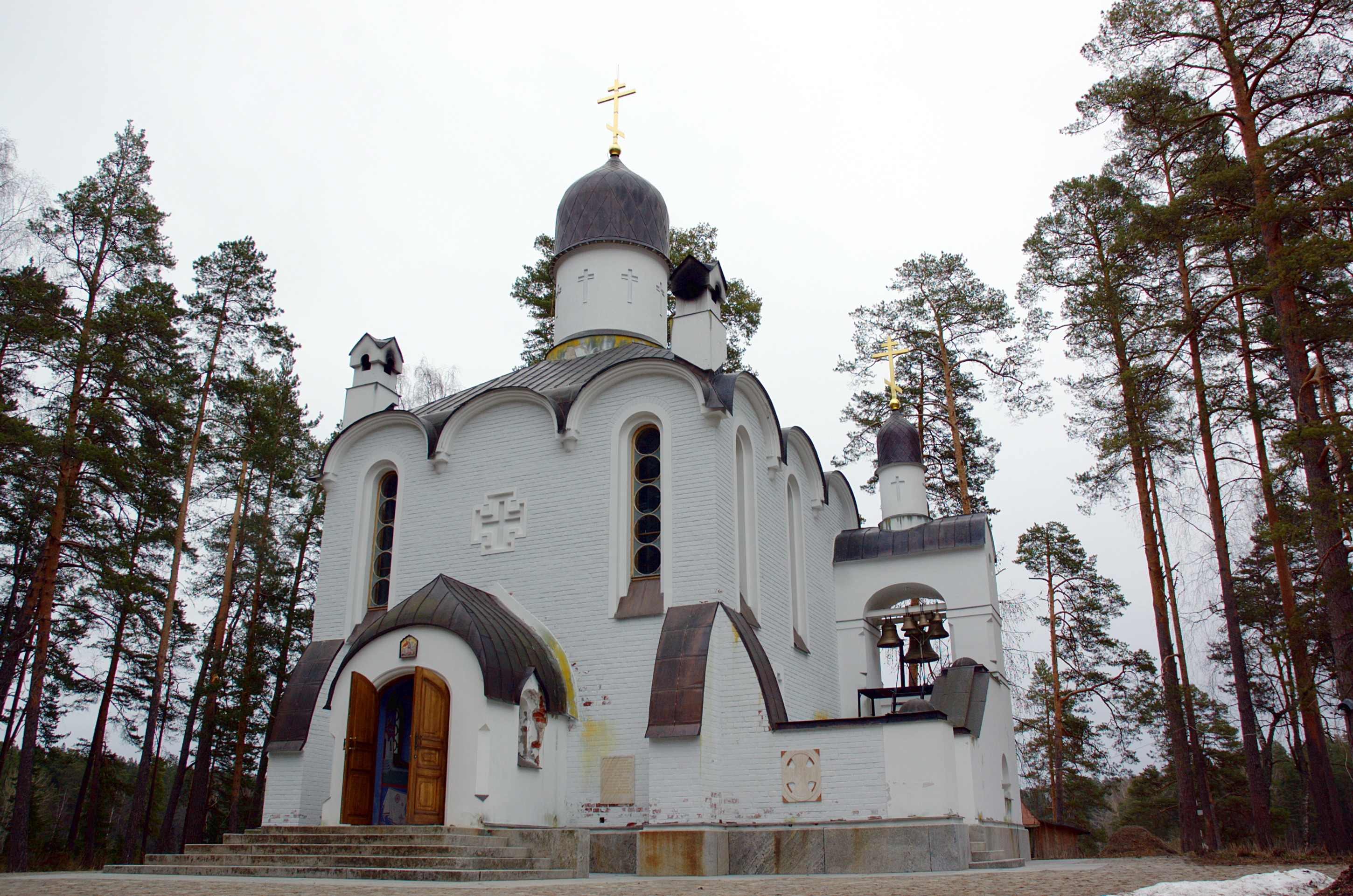 Valaam Monastery. Skete of Smolensk icon of Our Lady